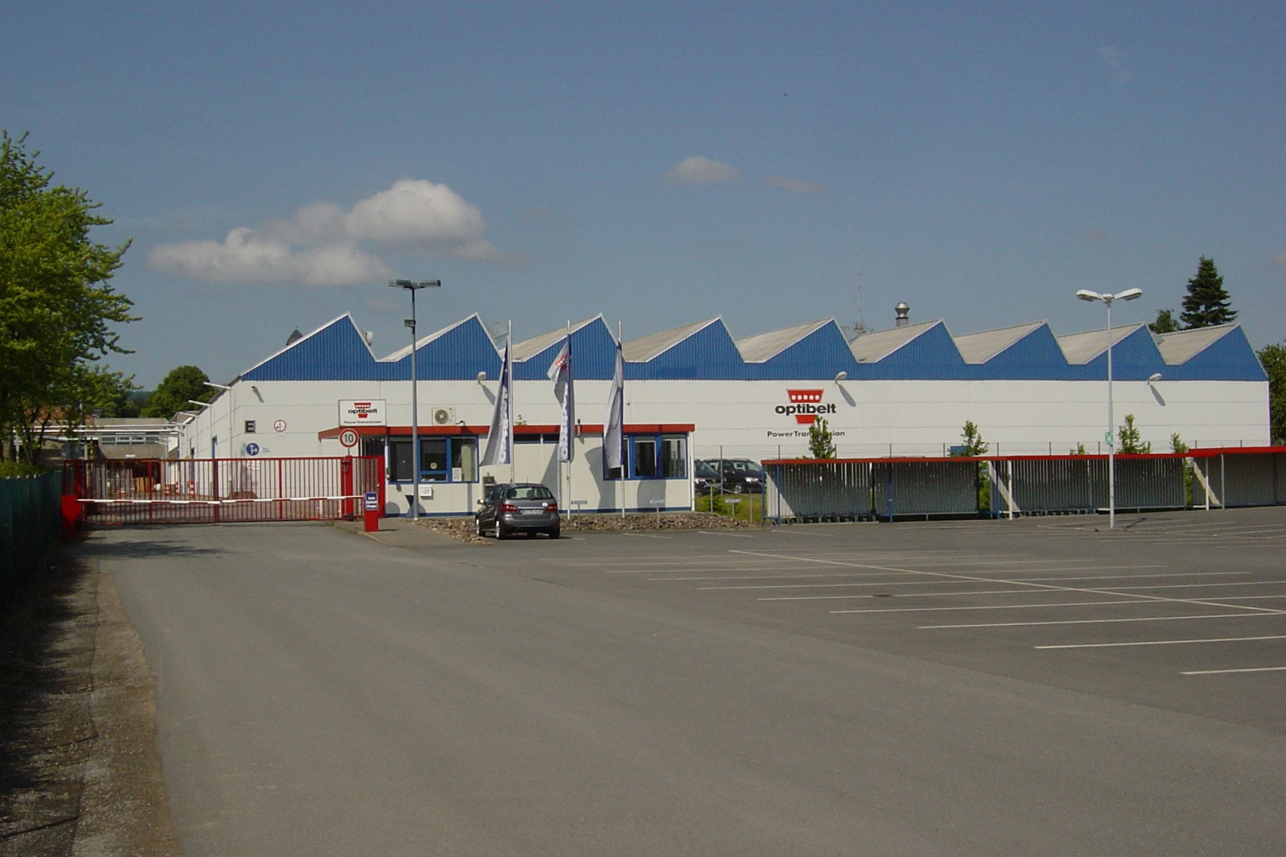 Optibelt Höxter (Germany)